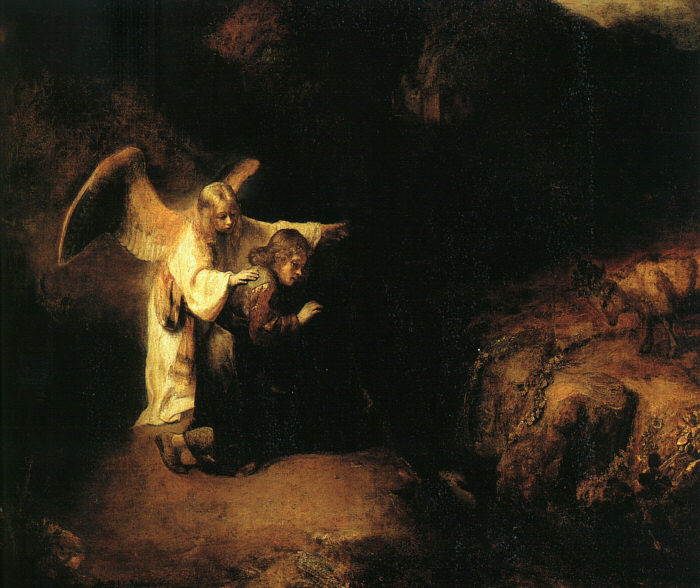 This image is available from the Netherlands Institute for Art Historyunder digital ID 262746. This tag does not indicate the copyright status of the attached work. A normal copyright tag is still required. See Commons:Licensing.